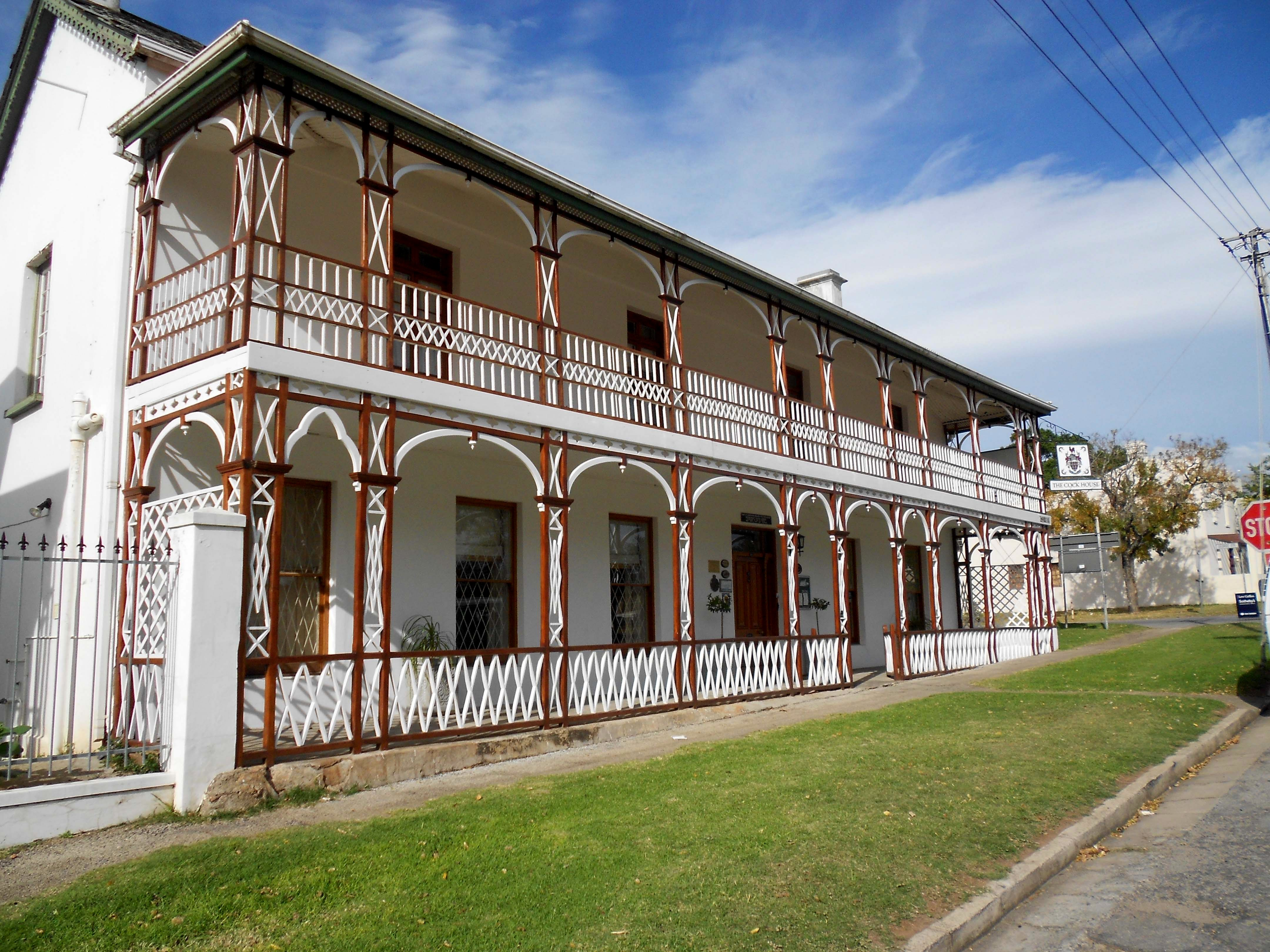 Cock House, 10 Market Street, Grahamstown This media shows a South African Protected Site with SAHRA file reference 9/2/003/0040.